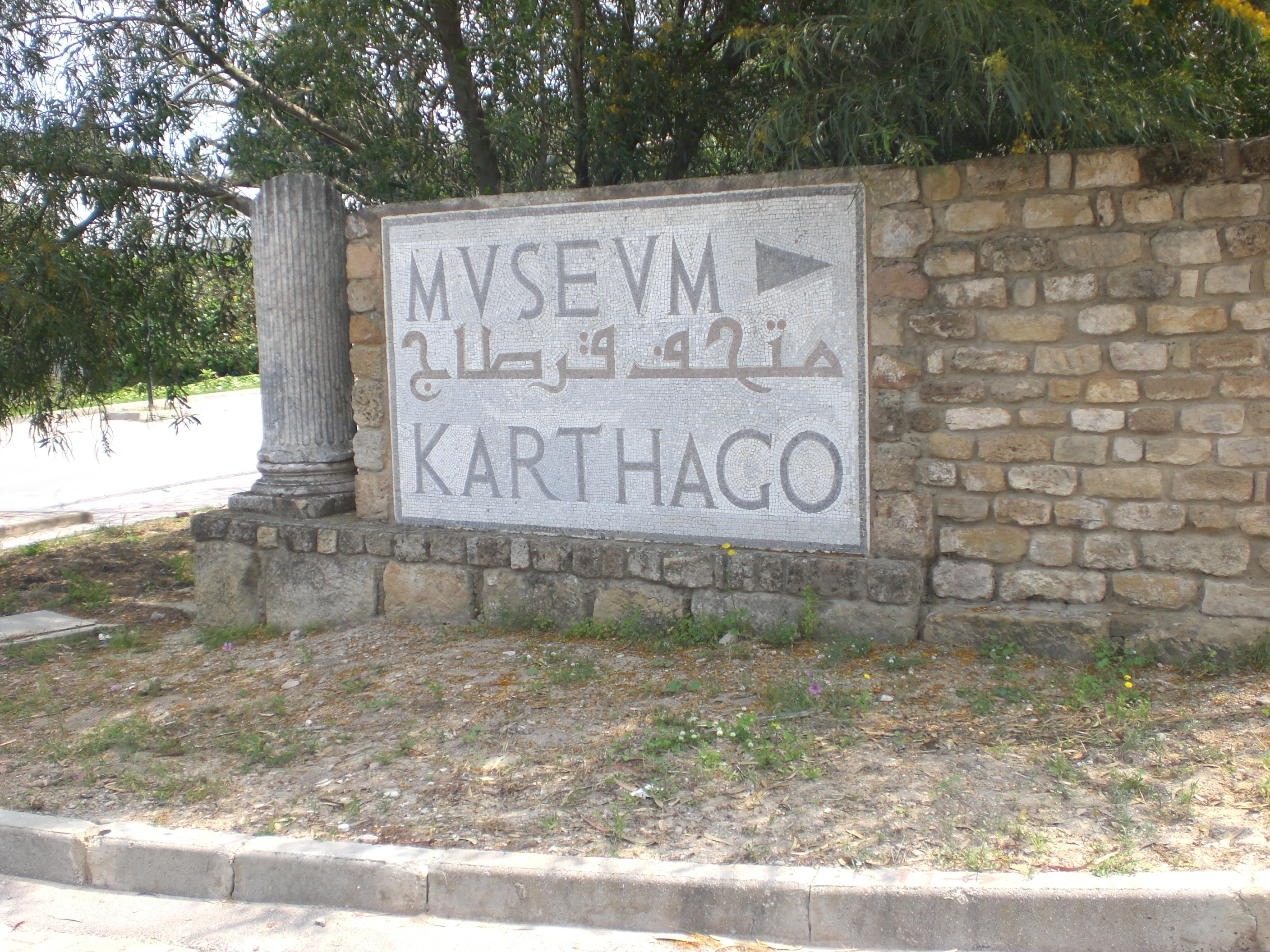 The Carthage Museum-Tunis